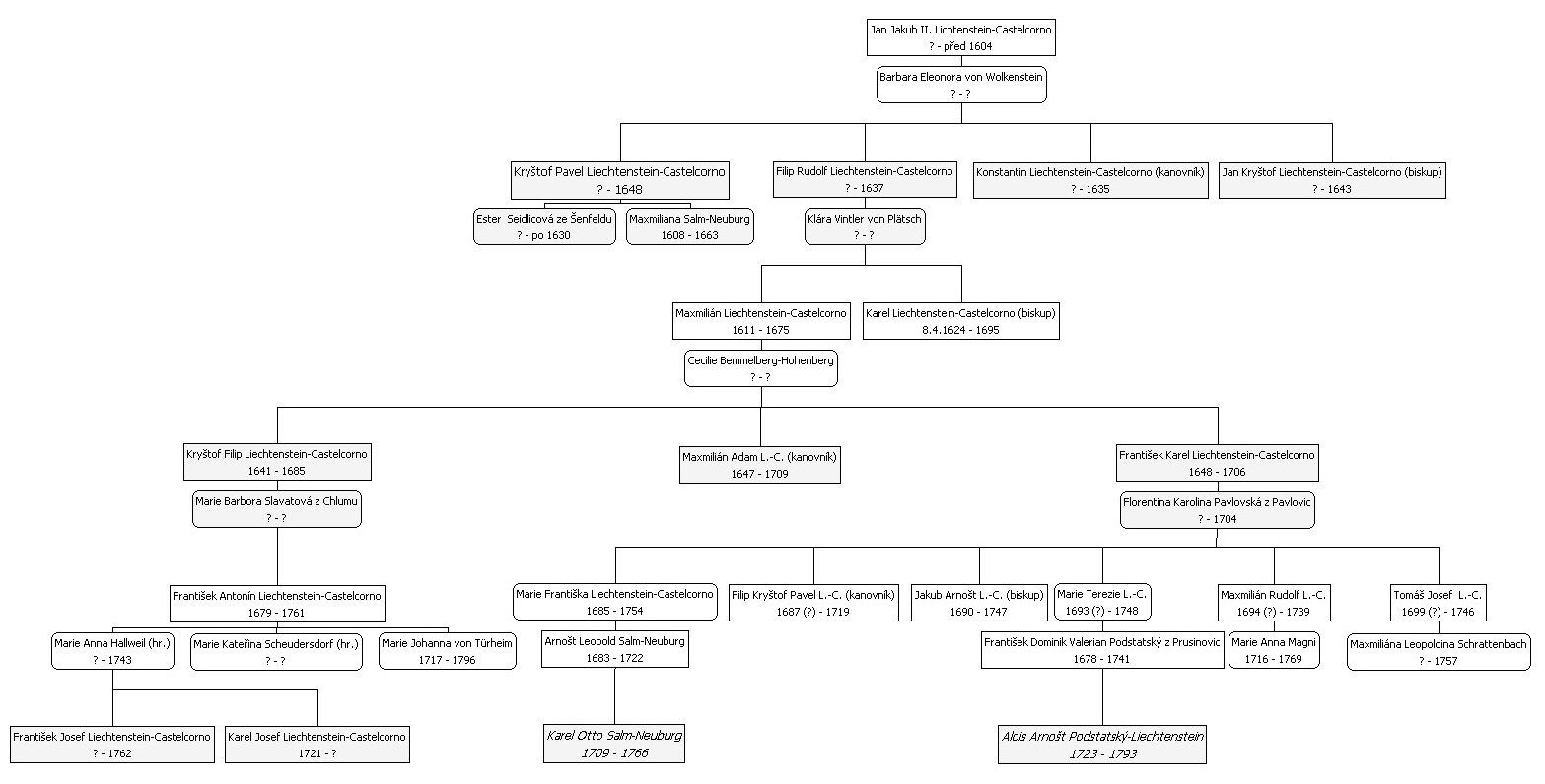 Genealogy of moravian branch of Liechtenstein-Castelcorno Family